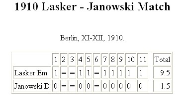 Chess_1910_Lasker_-_Janowski_Match